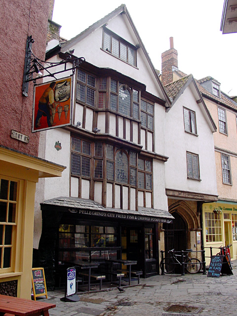 13th century building, Lewin's Mead, bristol